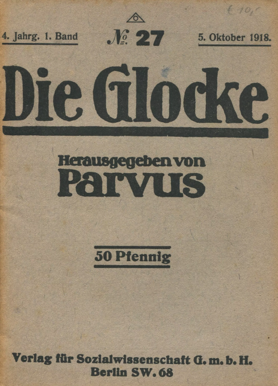 Magazine cover :Die Glocke (The Bell) published by Parvus